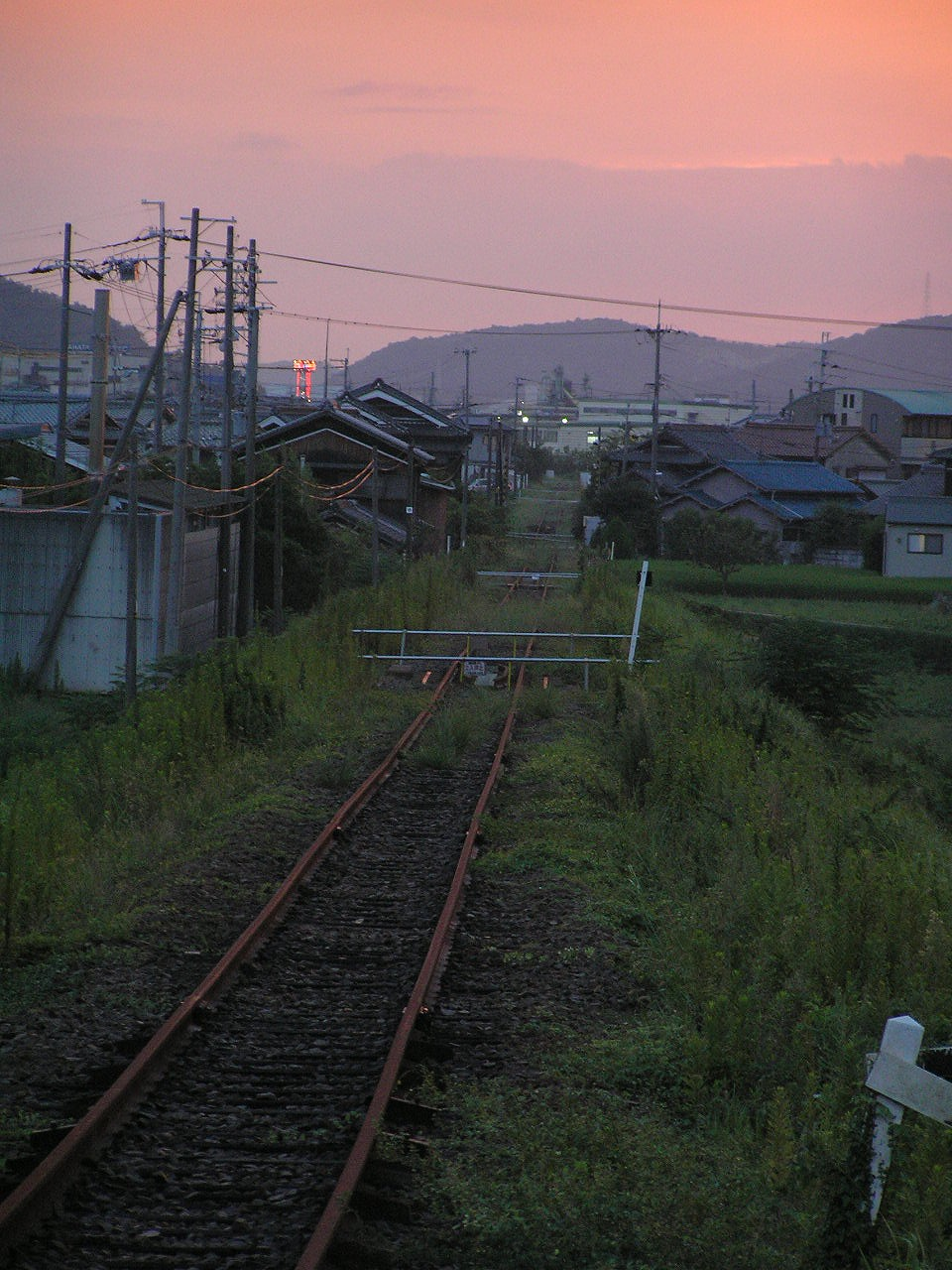 Miki railway 三木鉄道廃線跡宗佐駅